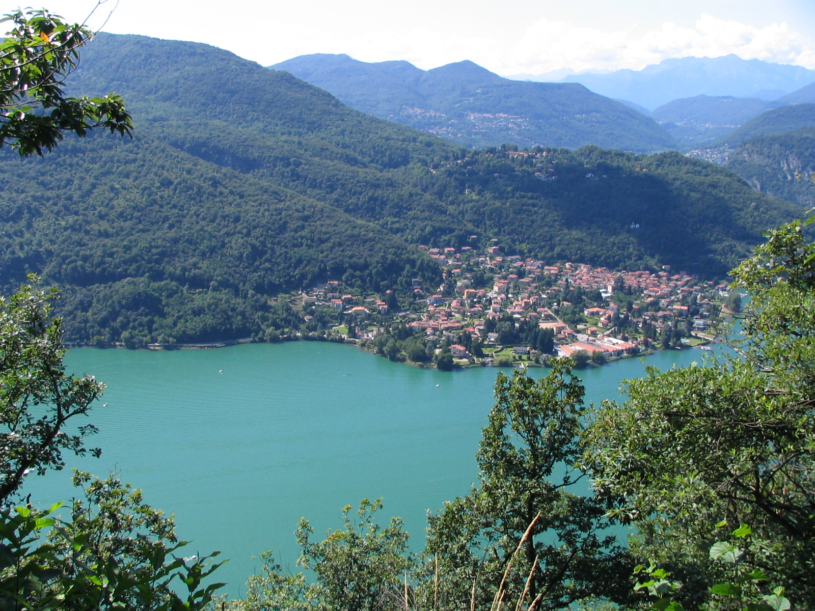 The village Brusimpiano (Italy, Varese) seen from the opposite side of the lake of Lugano (Ceresio) in Switzerland.